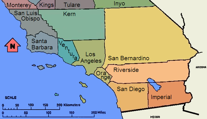 Map of Southern California region counties — of California. Crop from Image:California Map.jpg, Poured orange colour into counties using various degree of transparency in Paint Shop Pro.